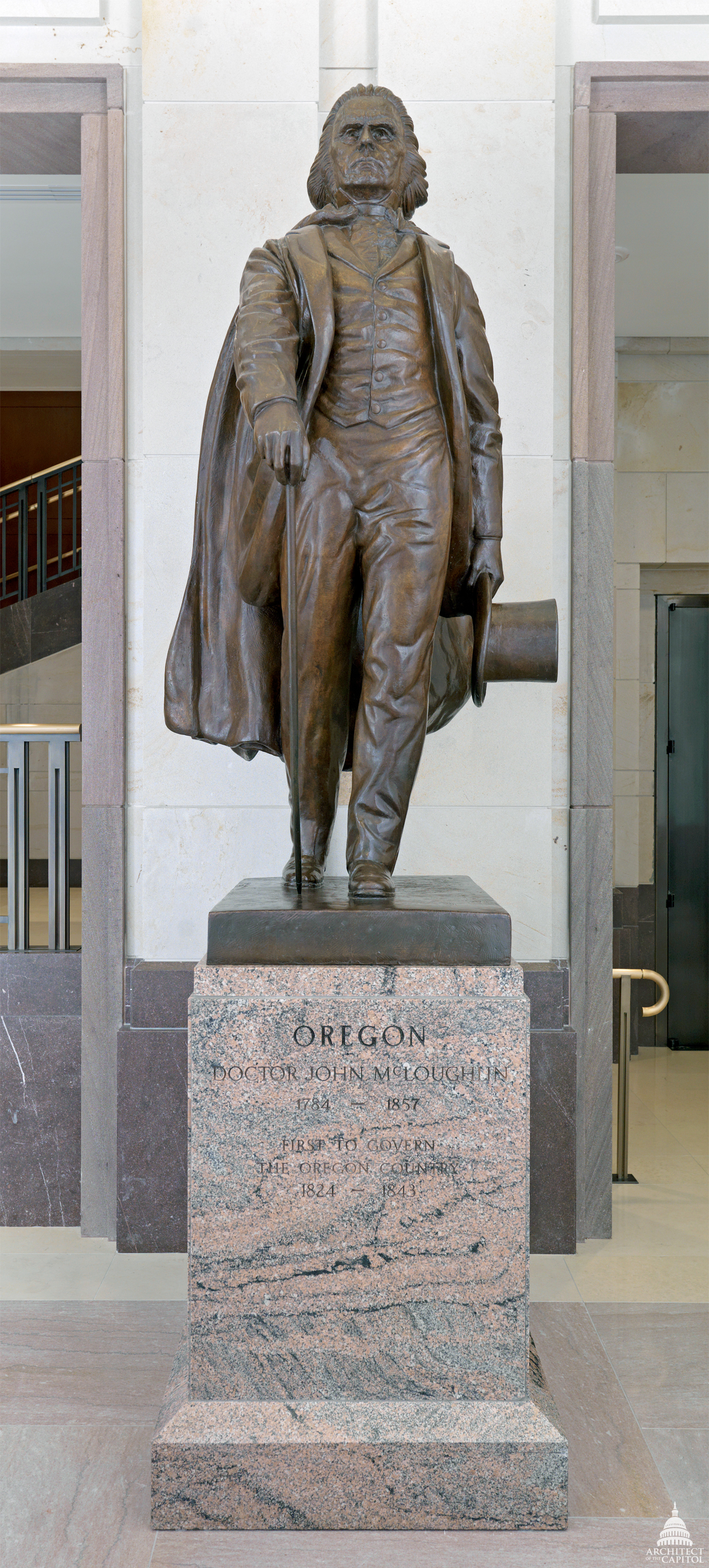 John McLoughlin (1784-1857) Oregon Bronze by Gifford MacG. Proctor Given in 1953 CVC Lower Level auditorium lobby U.S. Capitol This official Architect of the Capitol photograph is being made available for educational, scholarly, news or personal purposes (not advertising or any other commercial use). When any of these images is used the photographic credit line should read “Architect of the Capitol.” These images may not be used in any way that would imply endorsement by the Architect of the Capitol or the United States Congress of a product, service or point of view. For more information visit